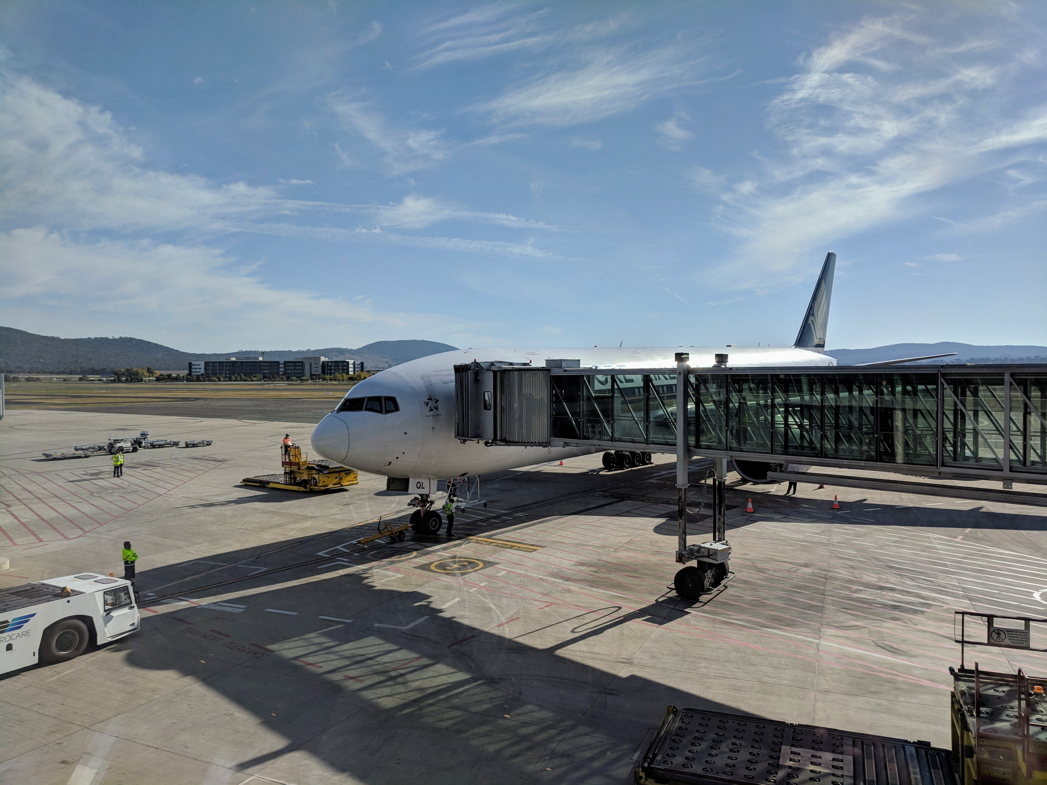 Singapore Airlines Boeing 777-200ER 9V-SQL at the international gate at Canberra Airport